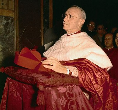 Cardinal Ritter